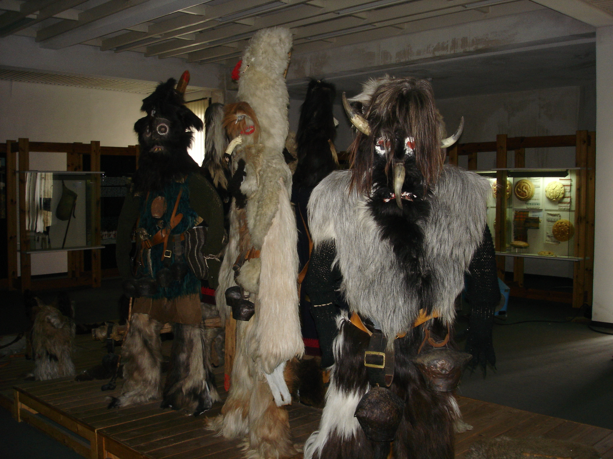 Kukeri in the Smolyan ethnographic museum, Bulgaria.